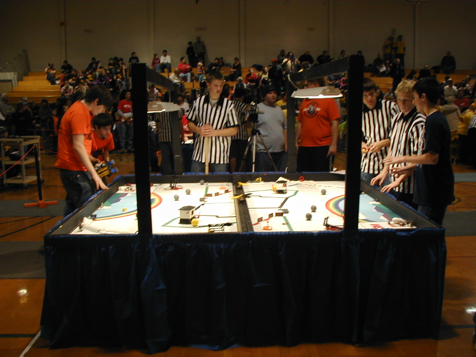 FIRST Lego League "Climate Connections" fields at Michigan Championship